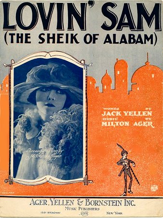 "Lovin' Sam (The Shiek of Alabam)" sheet music cover, 1922